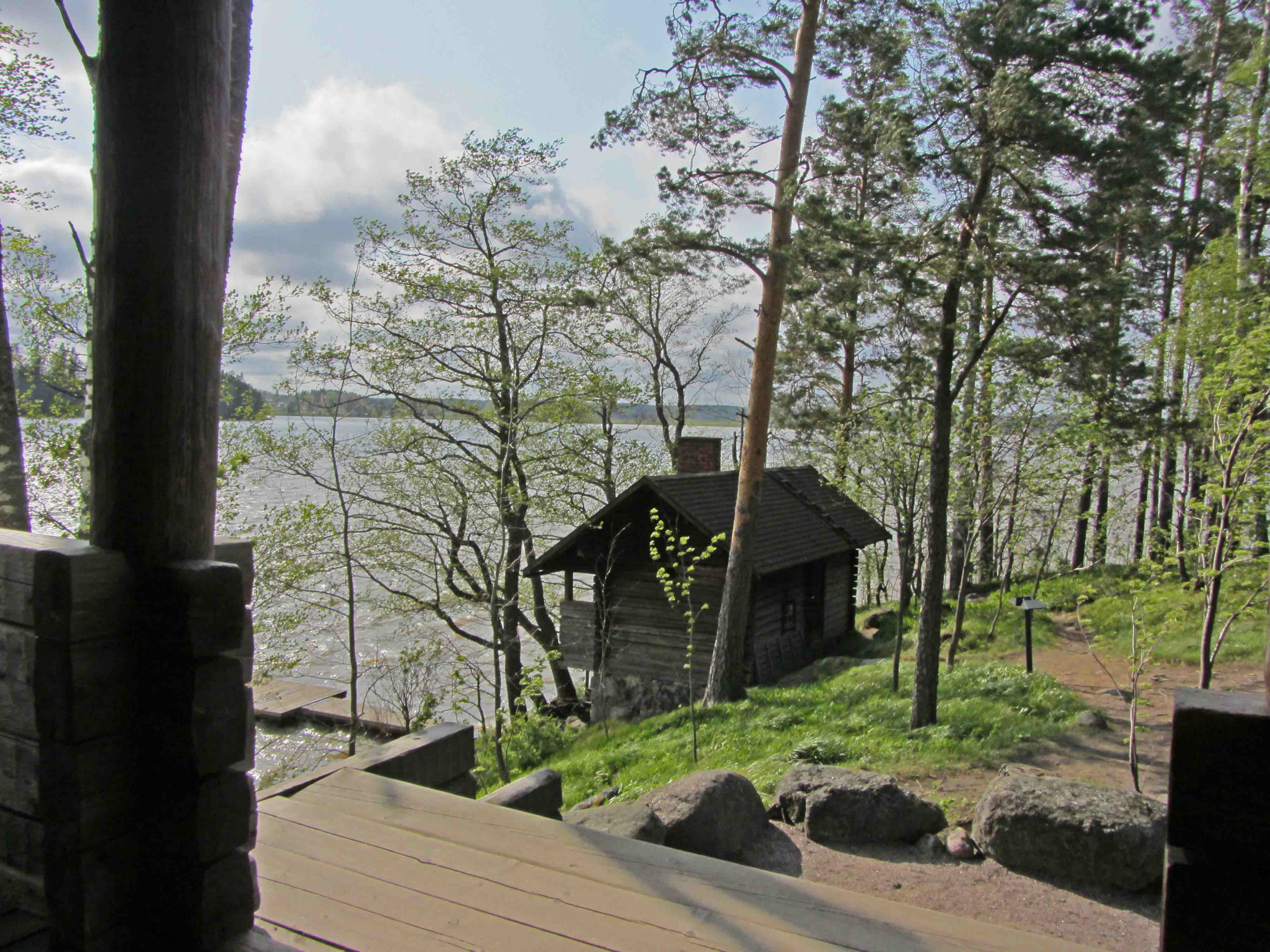 Halosenniemi, the home of Finnish painter Pekka Halonen